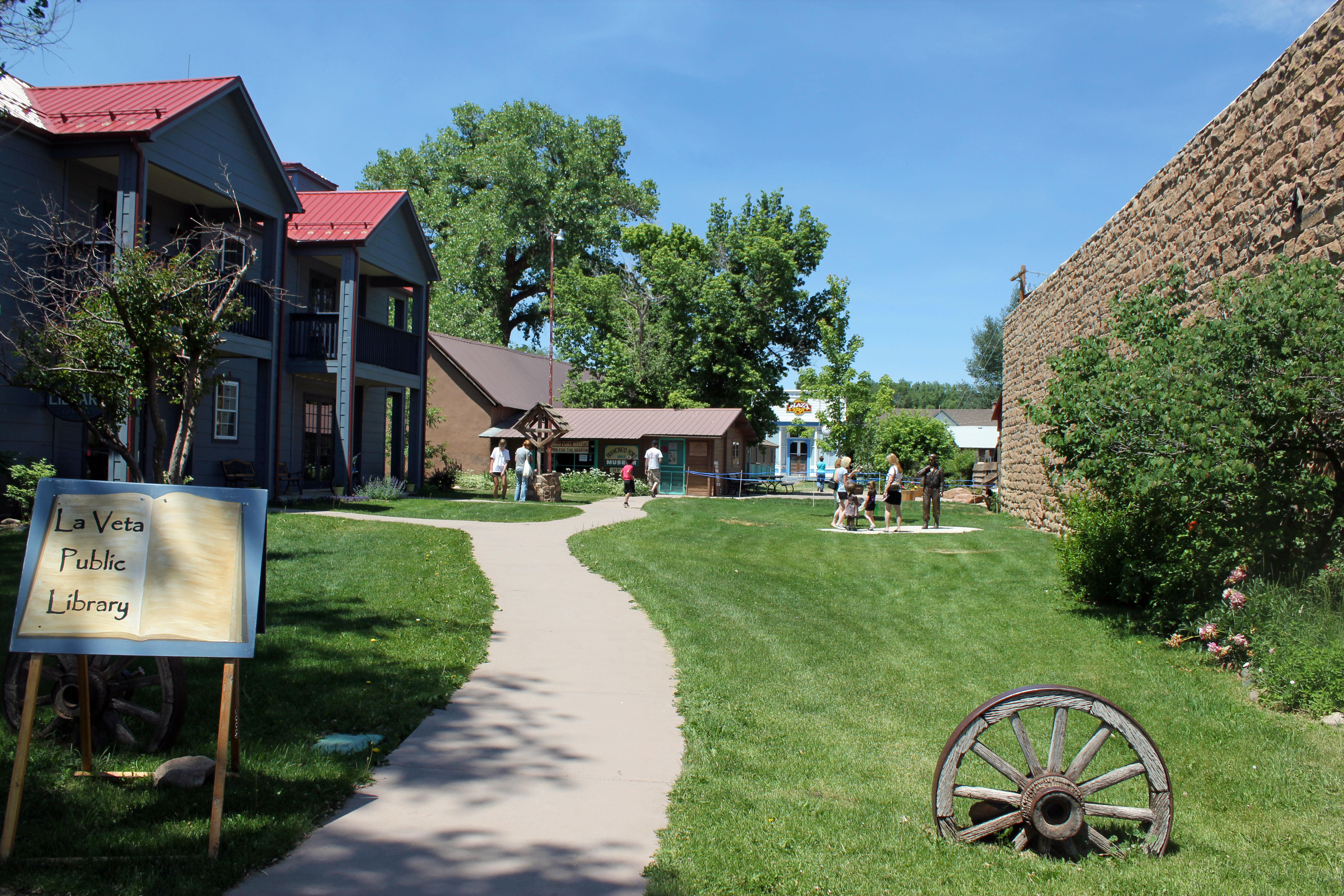 Francisco Plaza, located at 312 South Main Street in La Veta, Colorado. The property is listed on the National Register of Historic Places.